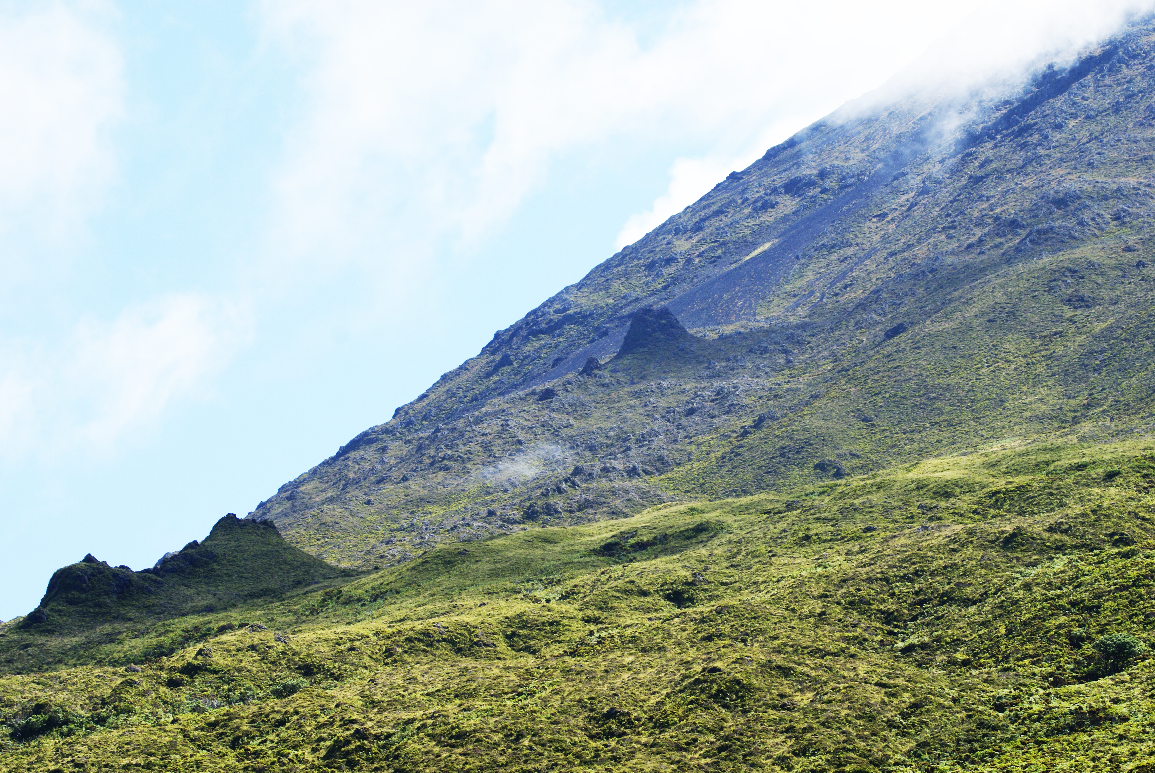 Montanha do Pico, cones adventícios, próximo ao cume 6 ilha do Pico, Açores, Portugal